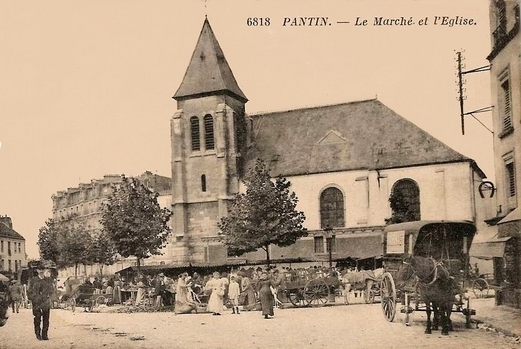 Saint-Germain l'Auxerrois church in Pantin (suburb of Paris) around 1900